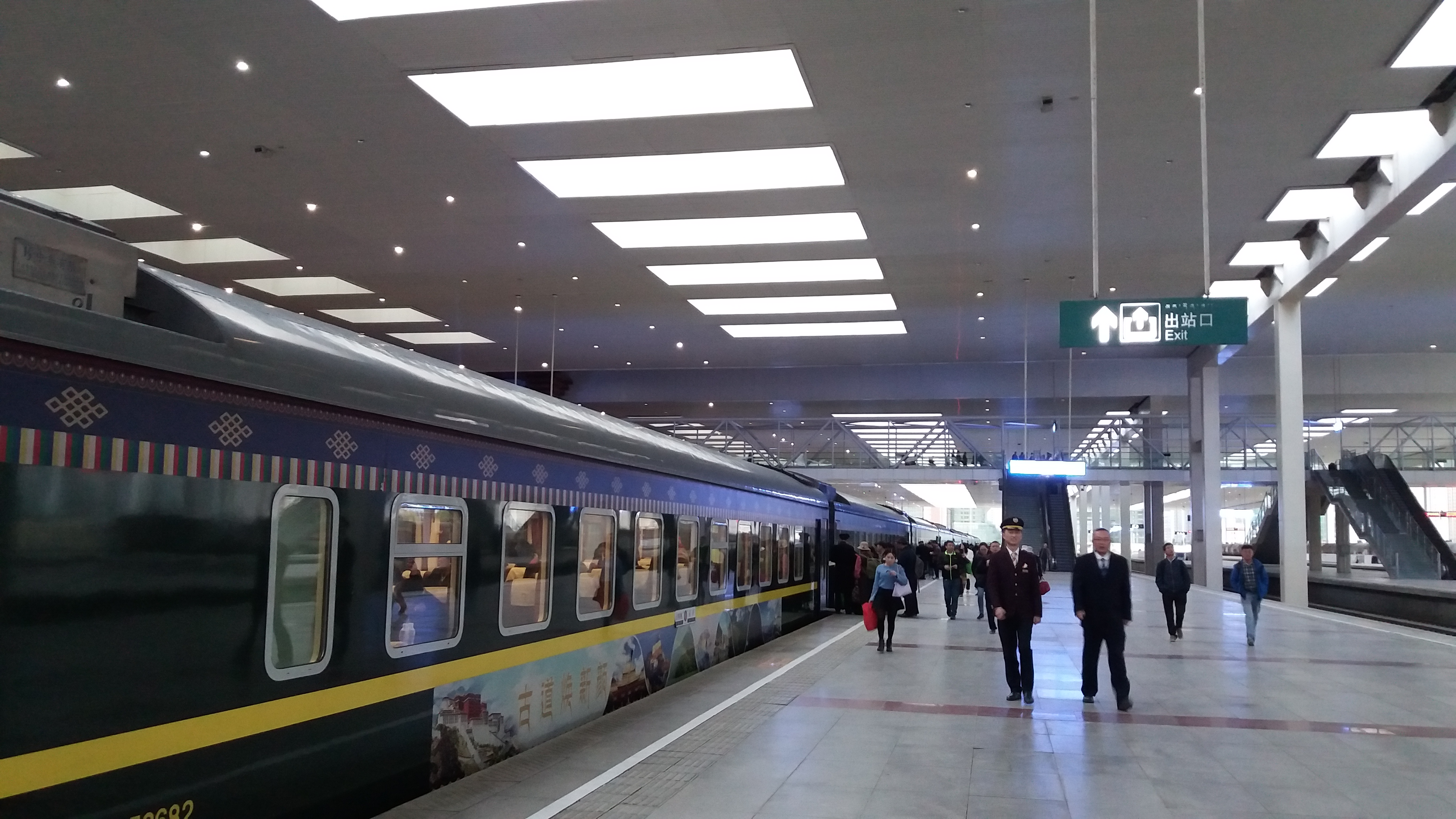 Lhasa Railway Station